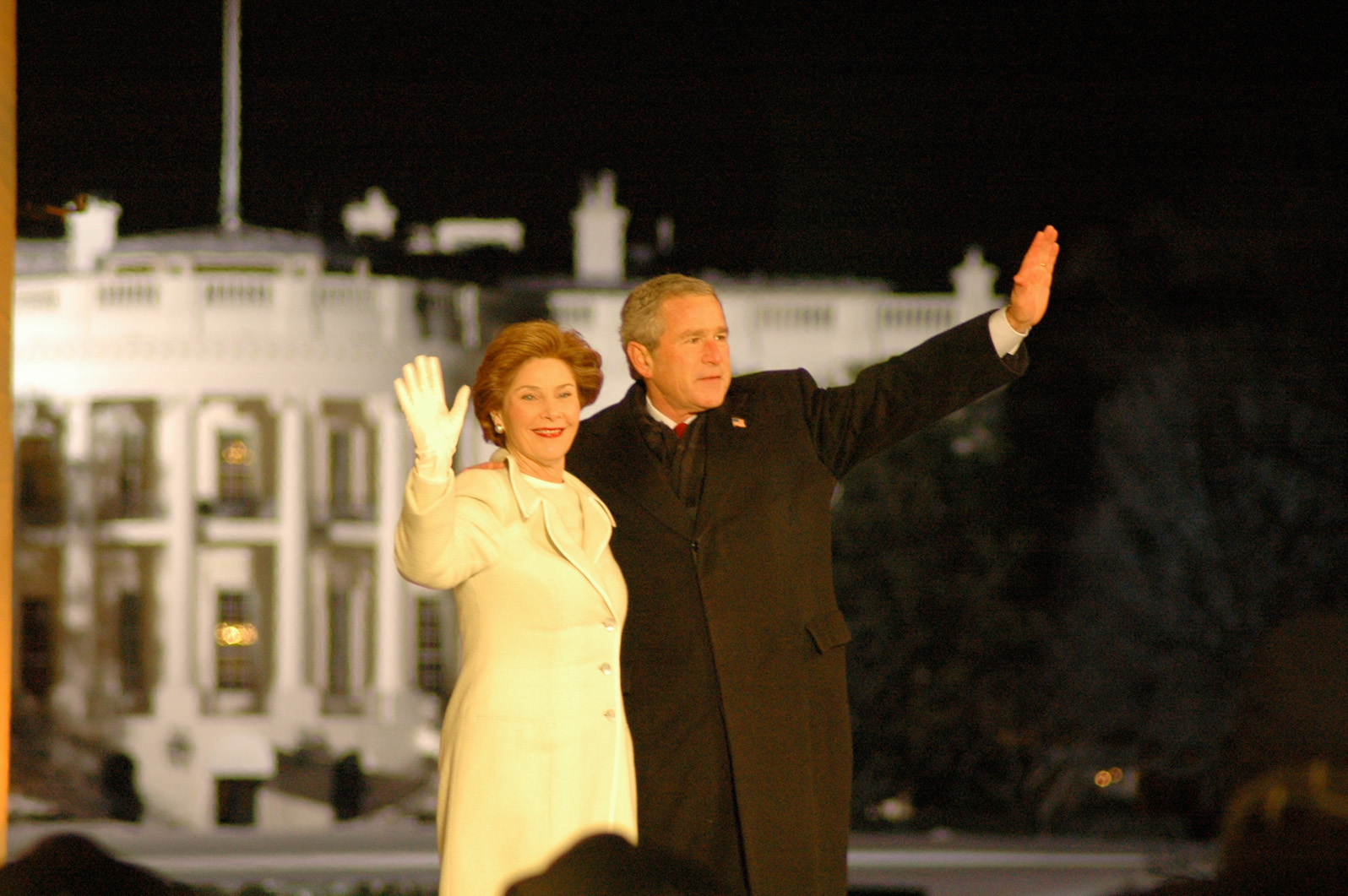 WASHINGTON (Jan. 20, 2005) President and Mrs. George W. Bush wave to a crowd of people before a fireworks display for the 55th Presidential Inuaguration. DOD photo.